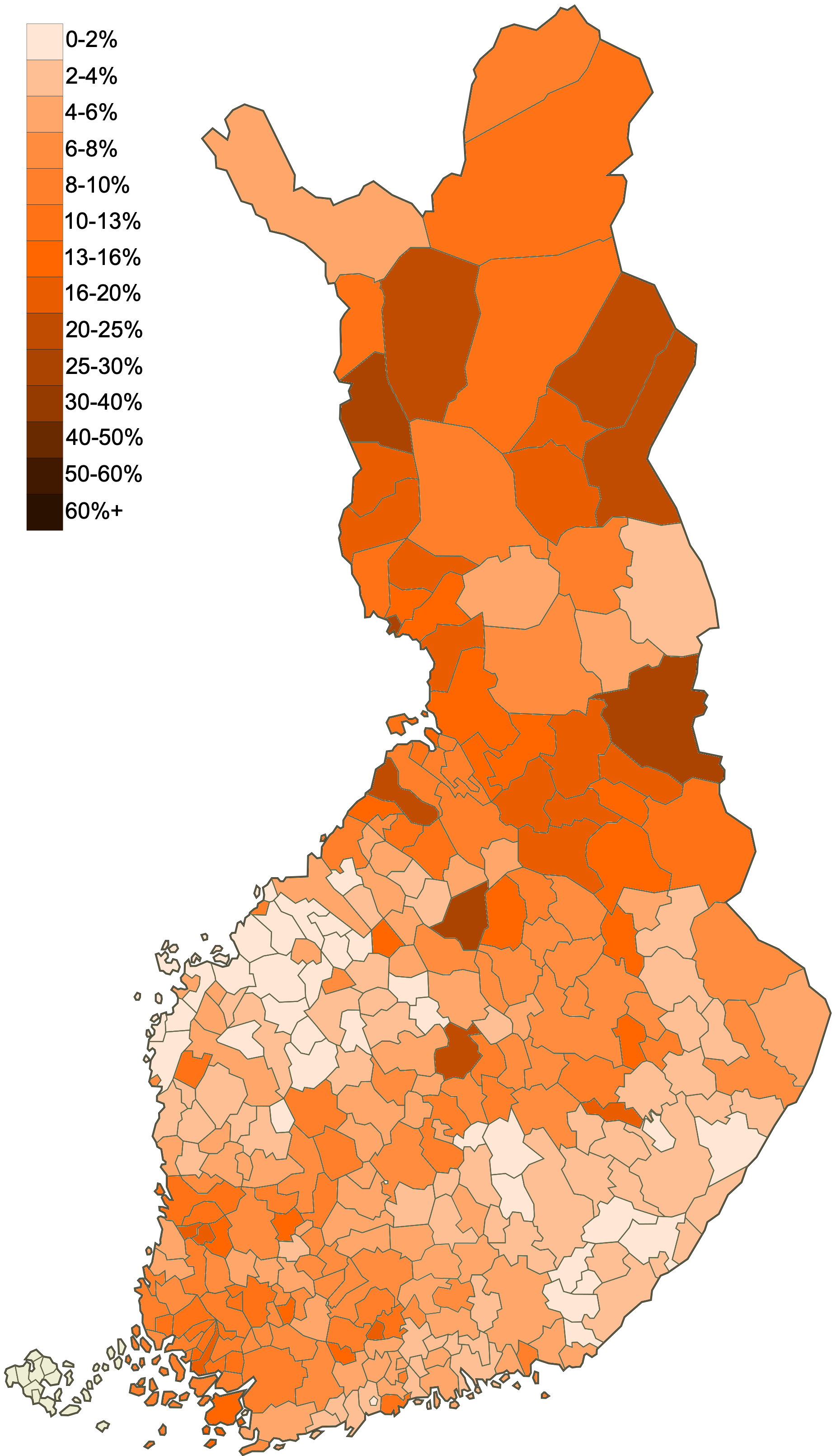 Support for the Left Alliance by municipality in the election for the Eduskunta.